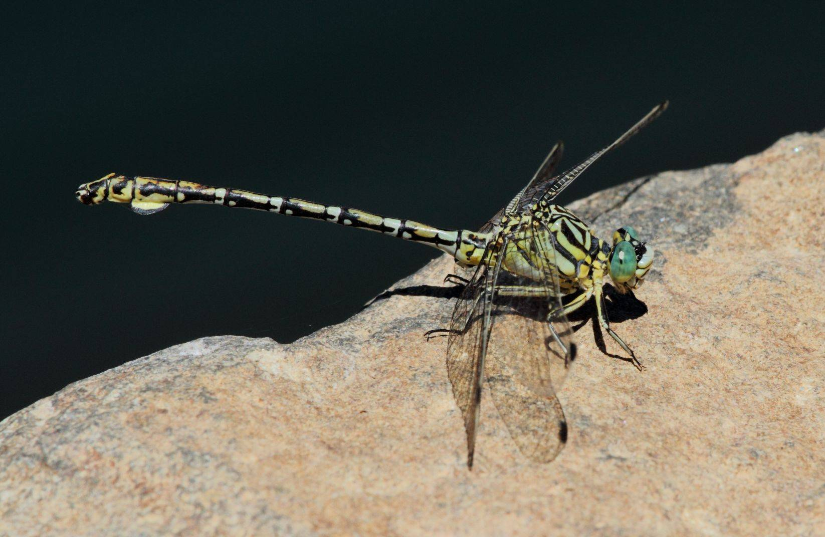 Common Thorntail, Himeville, KwaZulu-Natal, South Africa